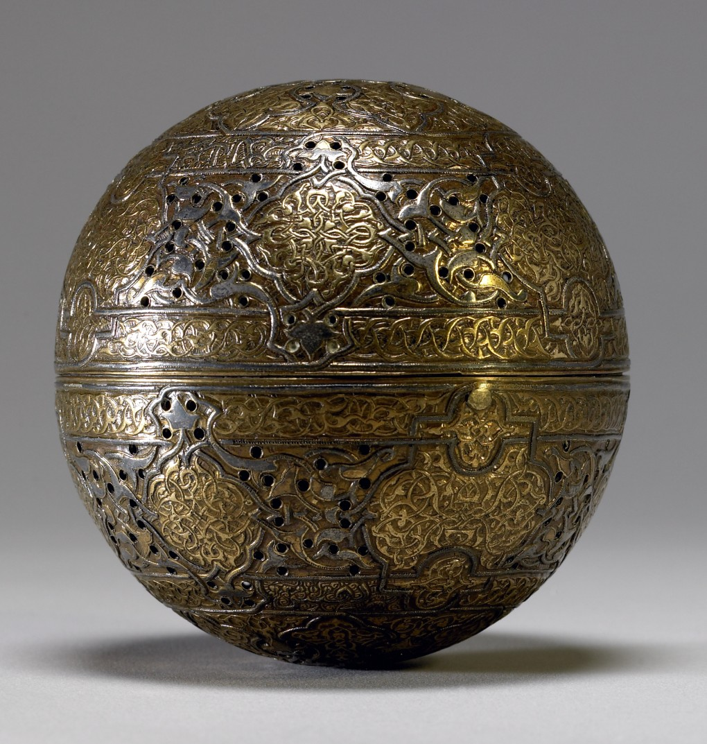 Gilded metal objects were long believed to have been made by Muslim craftsmen working in Venice during the Renaissance. It now seems more likely that they were made in Islamic lands for export to Europe. Muslim artisans often decorated their export wares with the geometric patterns, medallions, and foliage scrolls (known as arabesque designs) typical of Islamic art. The name of Zayn al-Din appears on a number of such export wares. Zayn al-Din may have come from Iran, since his signature on the round incense burner or hand warmer begins with the Persian word naqsh, meaning "decorated [by]."